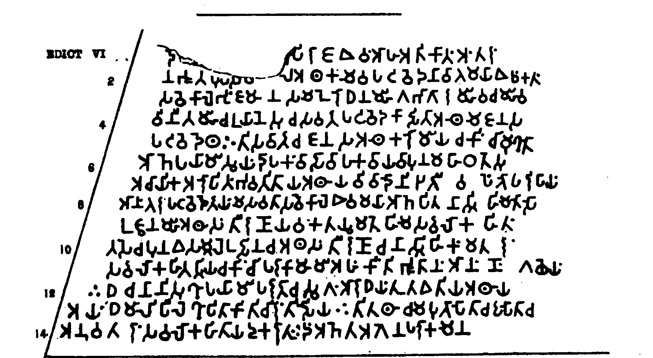 Girnar Major Rock Edict No6